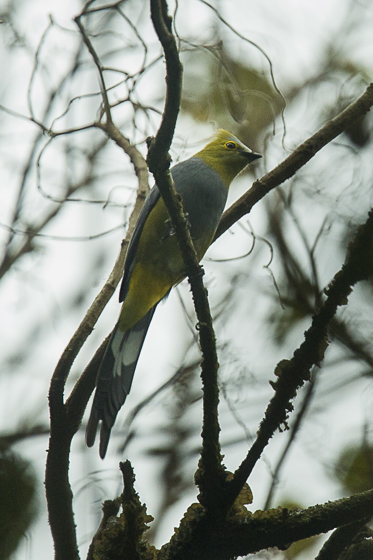 Long-tailed Silky-Flycatcher - Panam_H8O2429